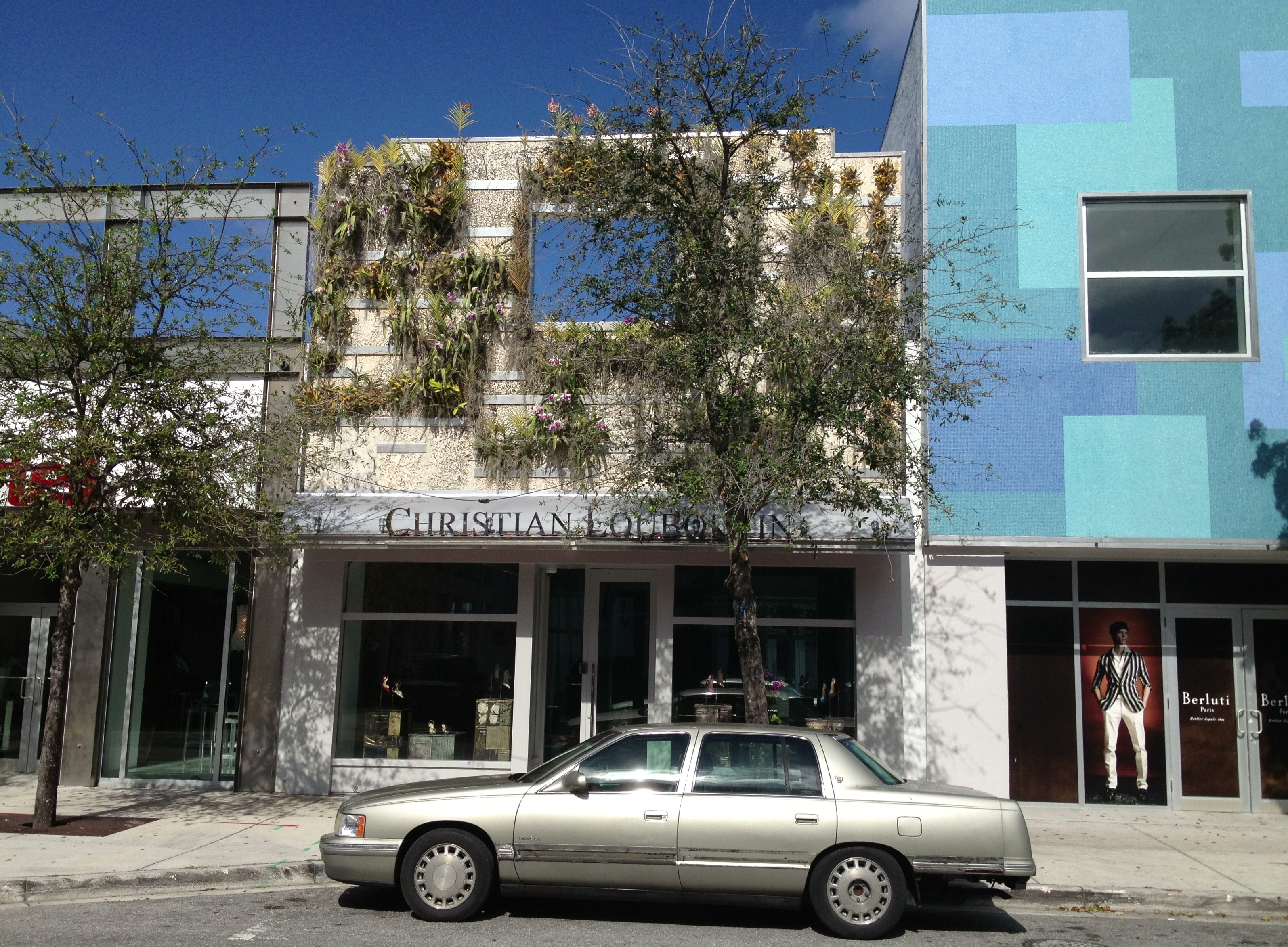 Store of French fashion brand Christian Louboutin (in Design District, Miami, Florida, 2013)